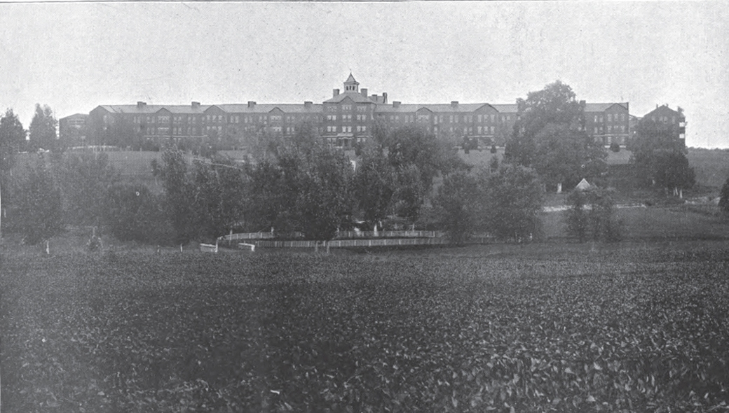 Old Main